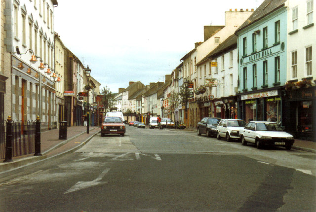 Carraig na Siúire (Carrick-on-Suir): Main Street Viewed looking eastwards from the junction with Bridge Street.